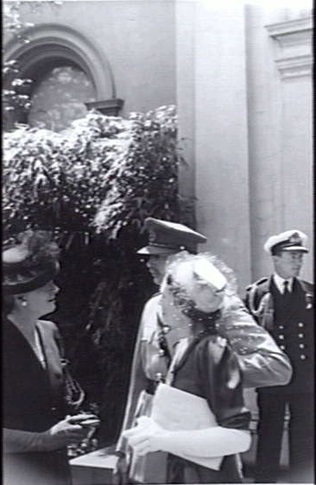 MELBOURNE, VIC 1945-11-30. AN INVESTITURE CEREMONY WAS HELD AT GOVERNMENT HOUSE WHERE SERVICE PERSONNEL RECEIVED AWARDS FROM THE GOVERNOR GENERAL, THE DUKE OF GLOUCESTER. MRS NEWTON WHO RECEIVED THE VC AWARDED TO HER LATE SON, FLIGHT LIEUTENANT W. E. NEWTON RAAF, CHATTING WITH THE DUKE AND DUCHESS OF GLOUCESTER AFTER THE CEREMONY. (PHOTOGRAPHER CPL NESTOR).